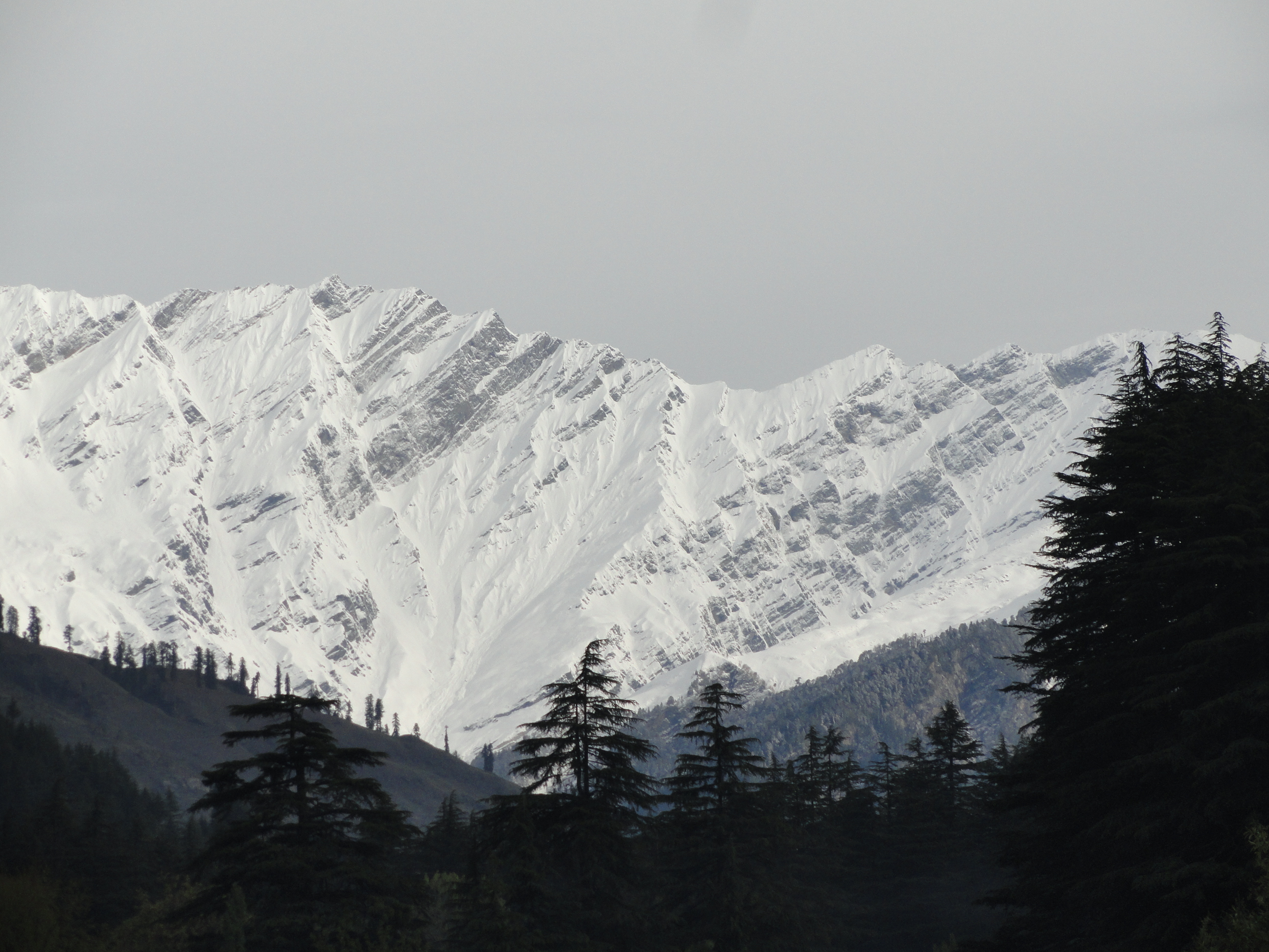 picture taken near manali..himachal pradesh